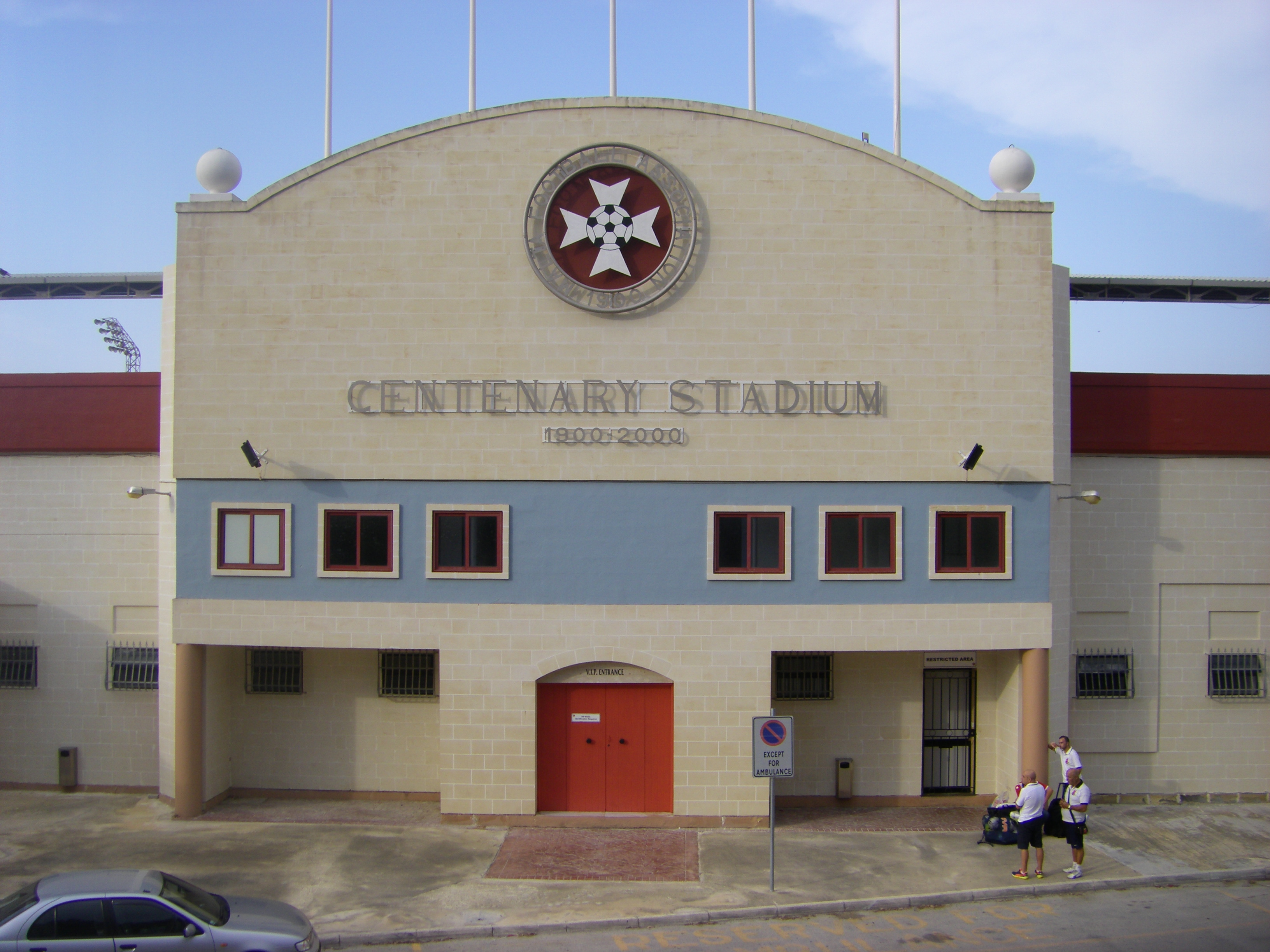 Ta' Qali Centenary Stadium which lies directly opposite to Ta' Qali National Stadium